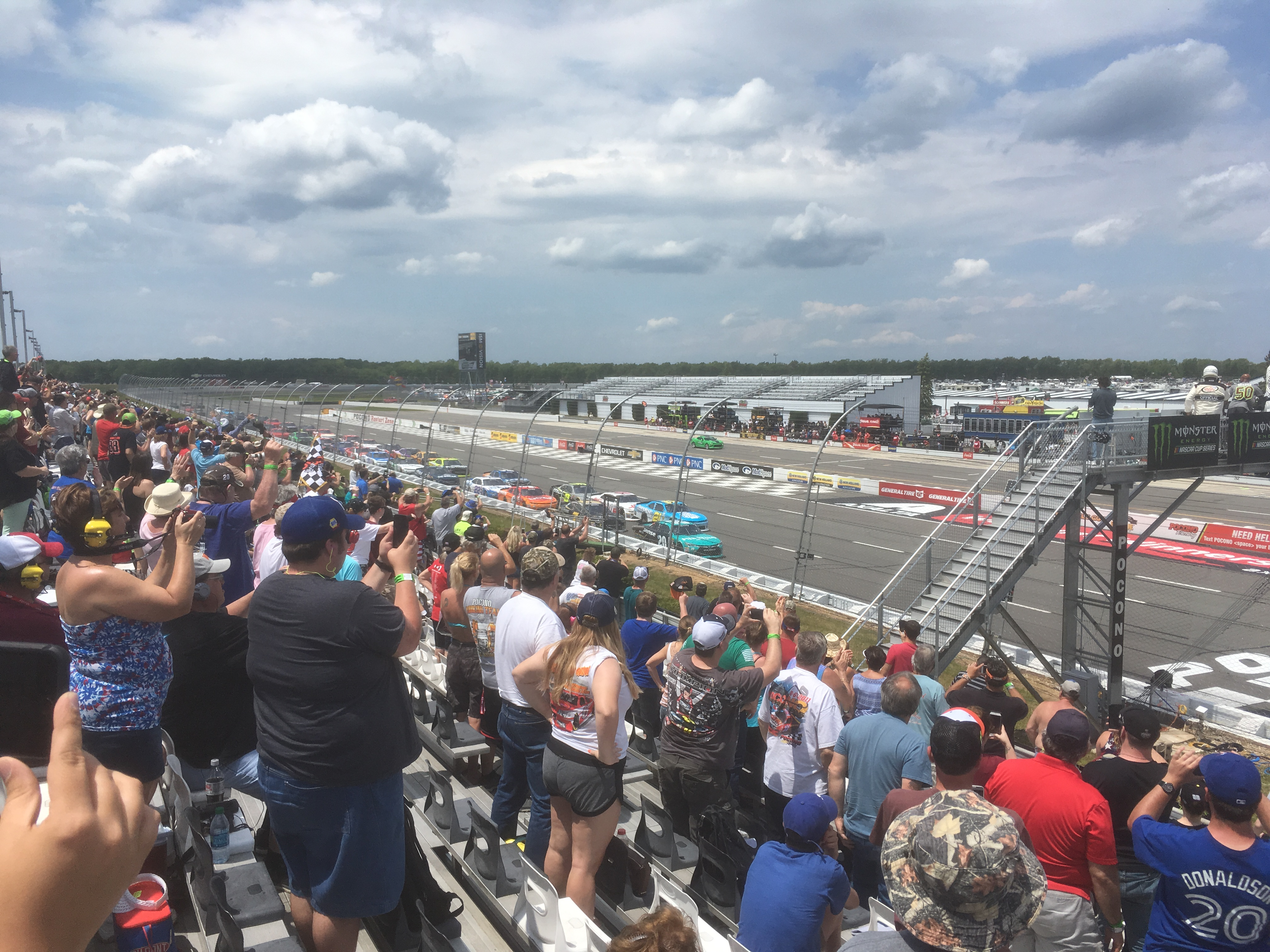 The 2017 Pocono Green 250 at Pocono Raceway viewed from the start/finish line, with Kyle Benjamin (#20) and Daniel Hemric (#21) on the front row.